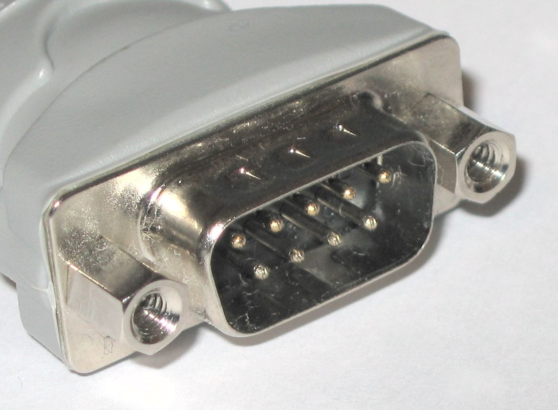 This is a 9 pin d-sub connector commonly called a DB-9, or more properly called a DE-9. This is the male end of a cable; this end would typically plug into non-PC hardware in a PC-to-other-hardware arrangement.